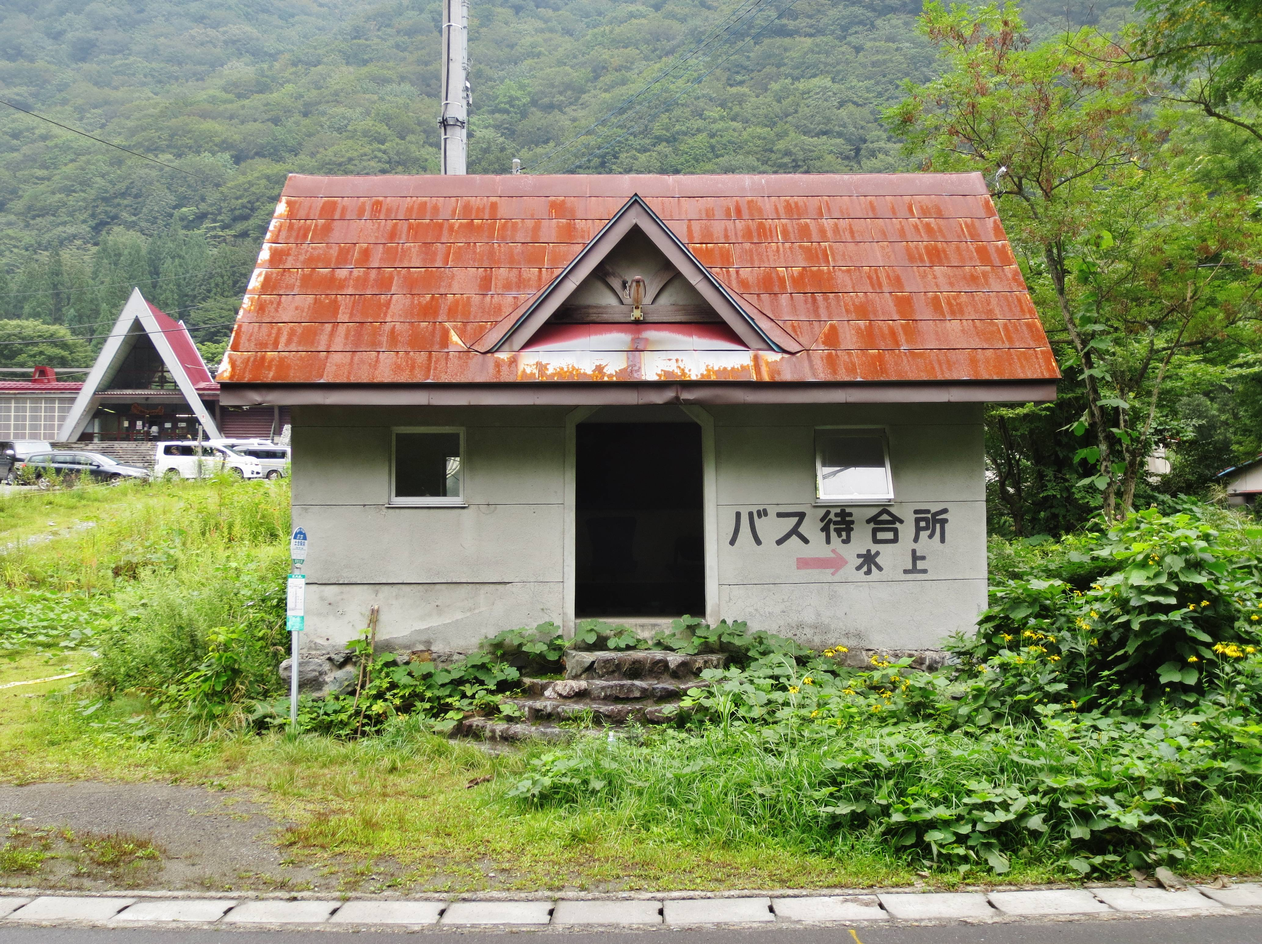 Doai Station bus stop.